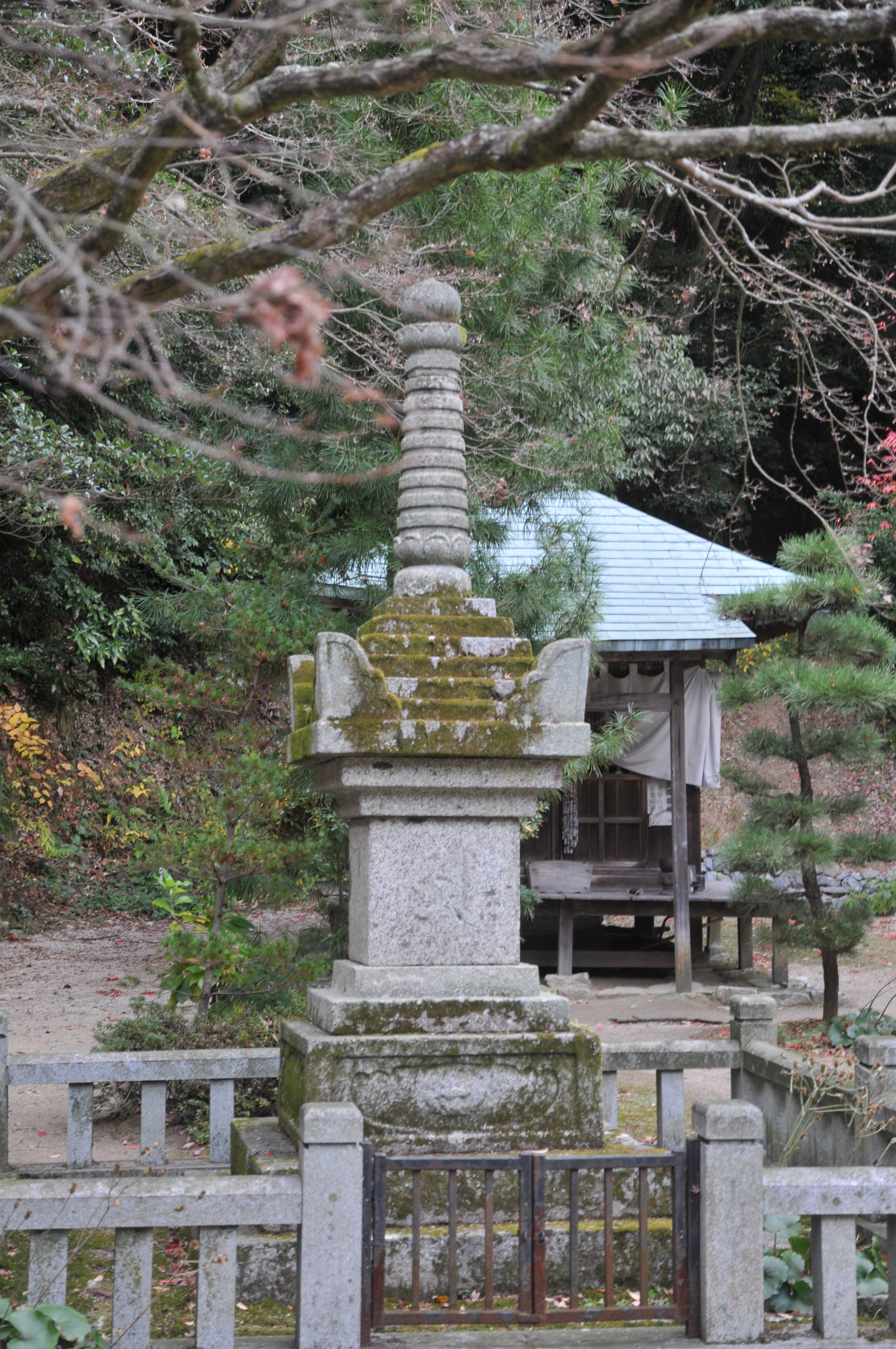 Hōkyōin-tō pagoda(Japan's national important cultural property), Nishiyama Kōryū-ji, Ehime Pref., Japan